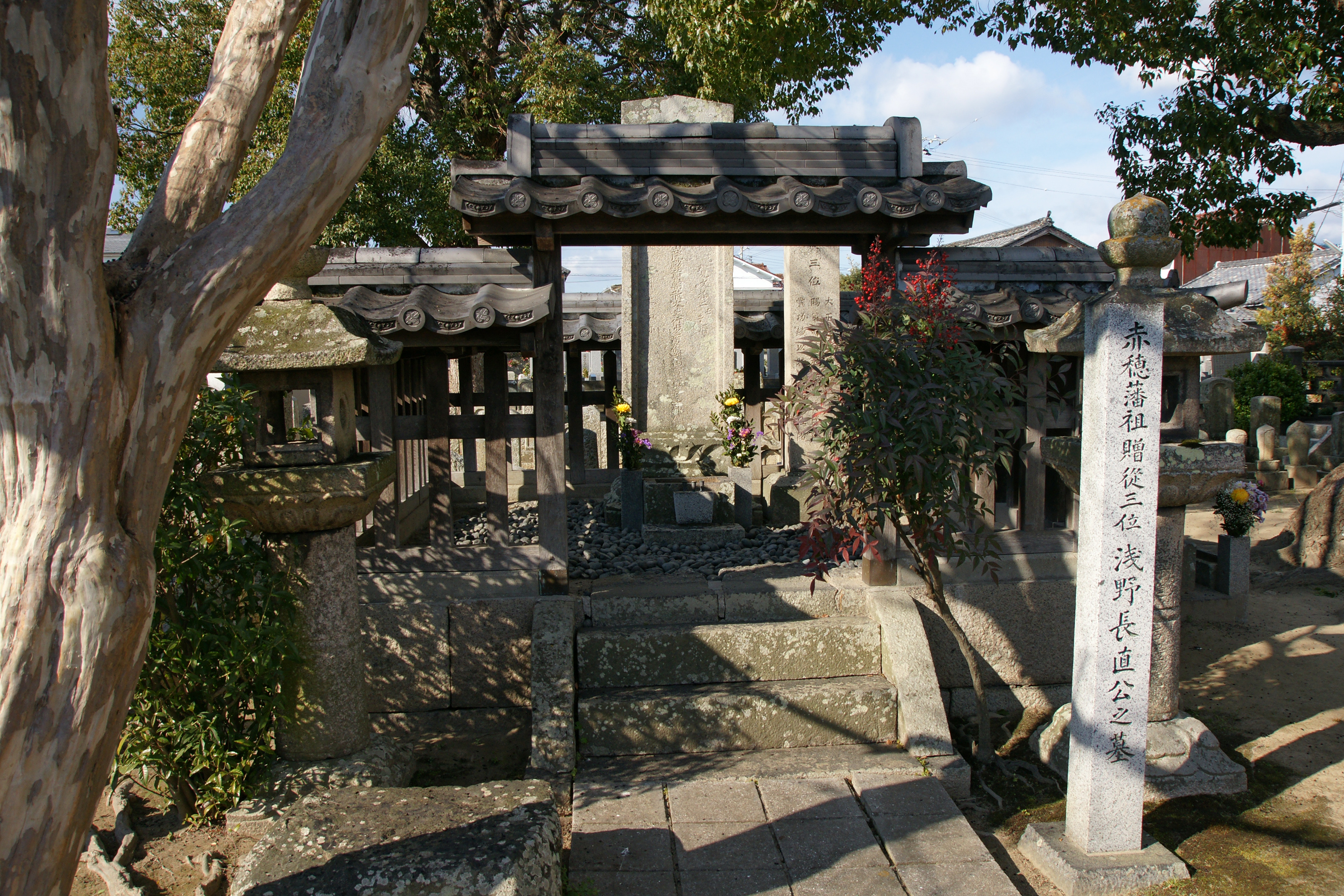 Kagakuji in Akō, Hyogo prefecture, Japan